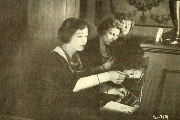 Still from the American drama film The Divorce Trap (1919) with Gladys Brockwell, on page 1222 of the May 24, 1919 Moving Picture World.